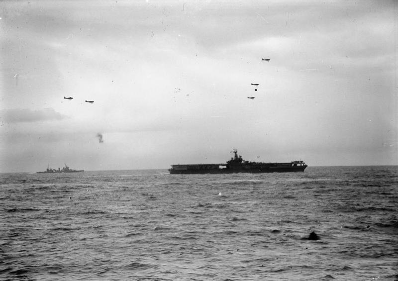 Operation Leader 5-6 October 1943: USS Ranger (CV-4) and USS Tuscaloosa (CA-37) under way during Operation LEADER, an attack on German shipping in Norwegian fiords around Bodo.